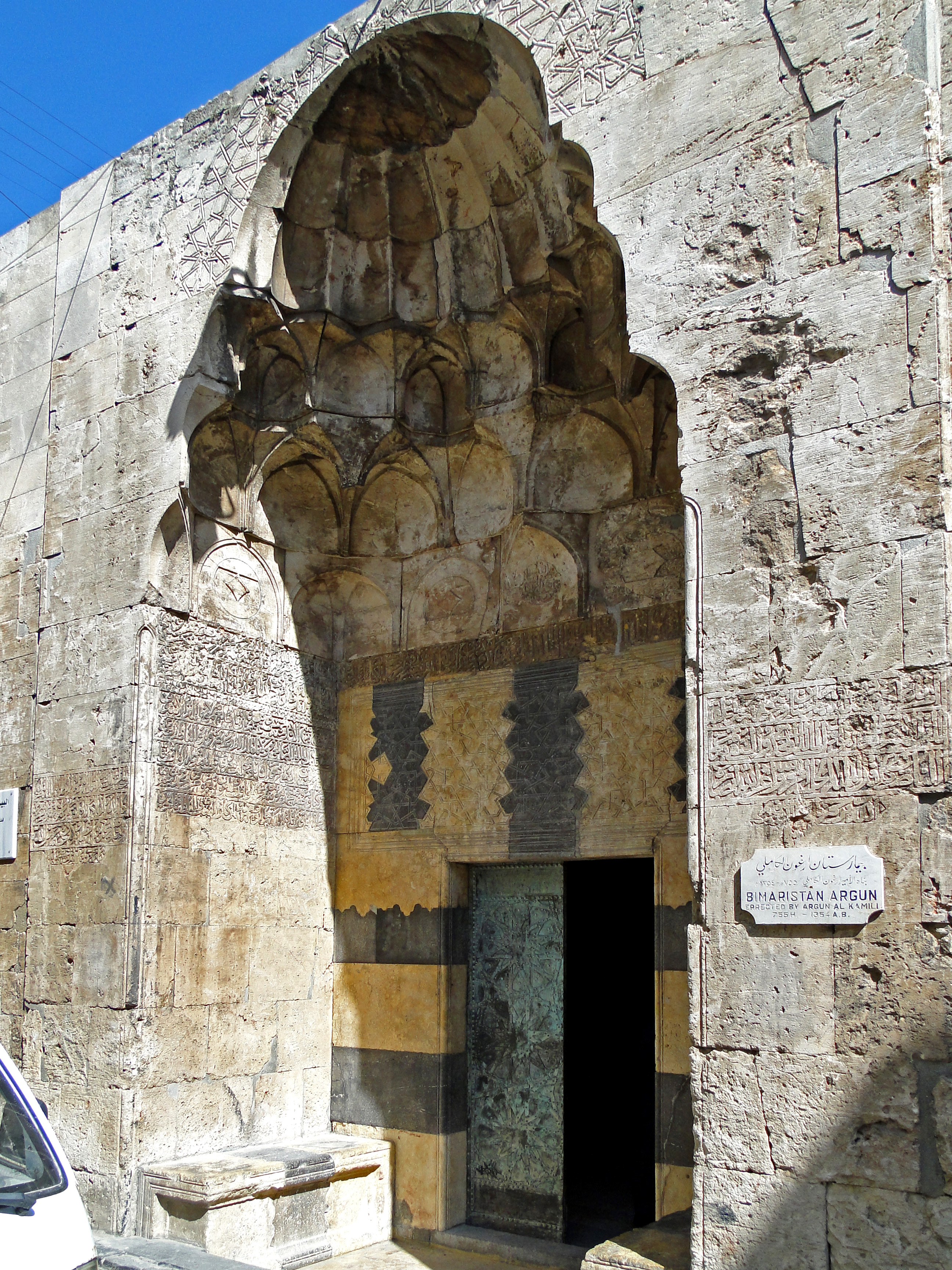 Door of Bimaristan Argun, Aleppo, Syria